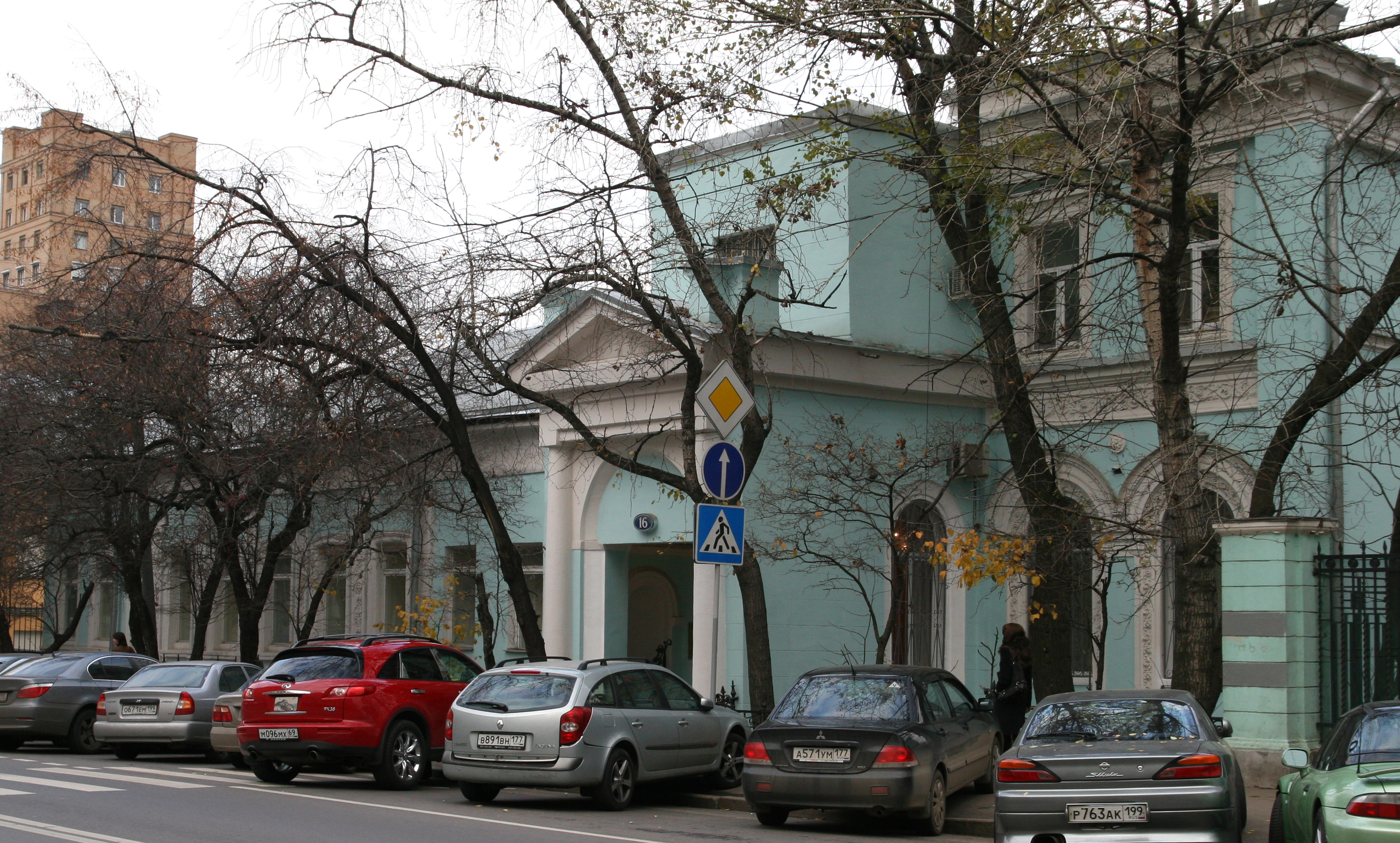 Moscow, Malaya Dmitrovka Street 16